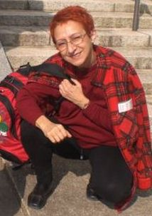 Prof. Julia Tsenova